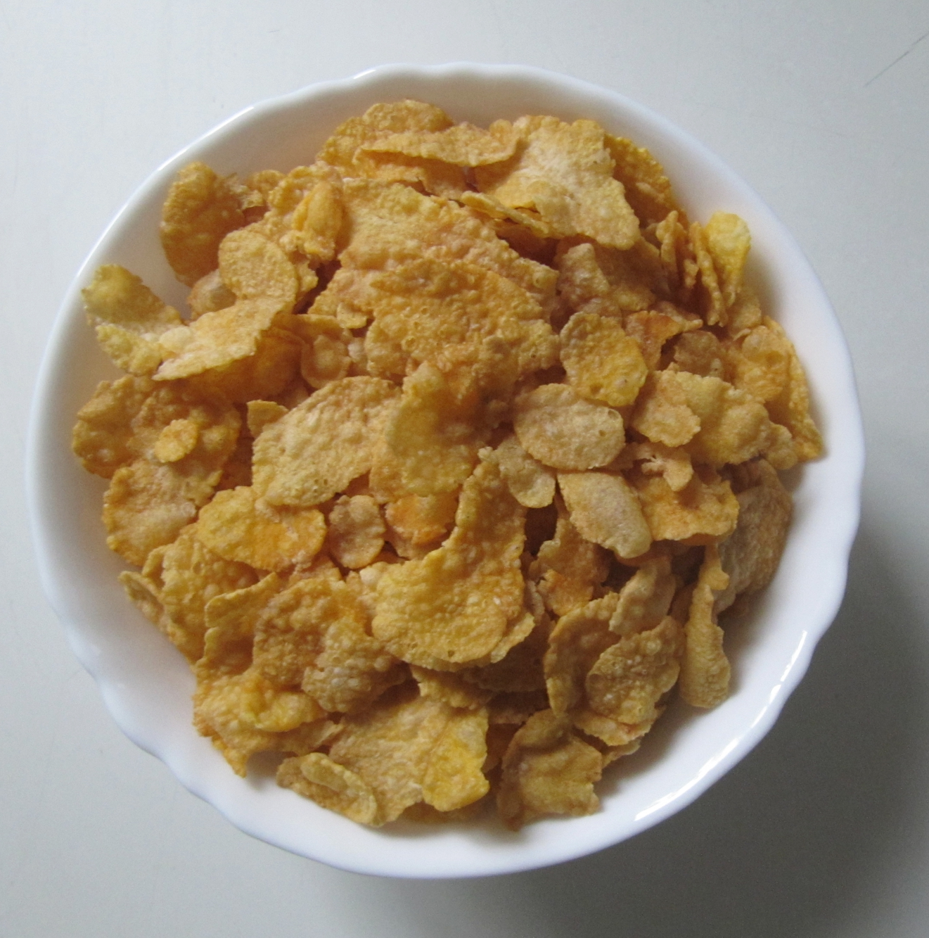 Cornflakes (not glaced)